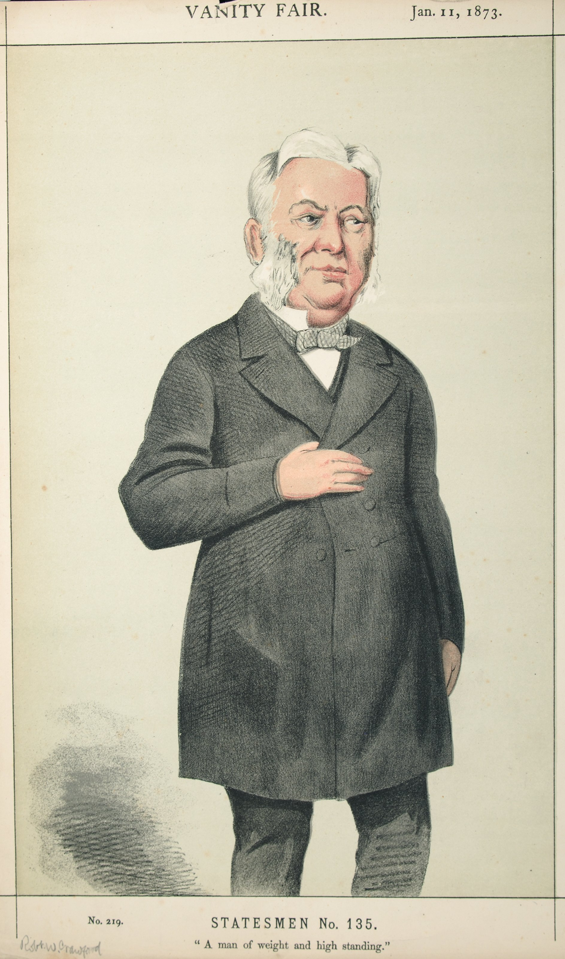 Statesmen No.135: Caricature of Mr Robert Wigram Crawford (1813-1889), Liberal MP for City of London 1857-1874. Caption reads: "A man of weight and high standing"